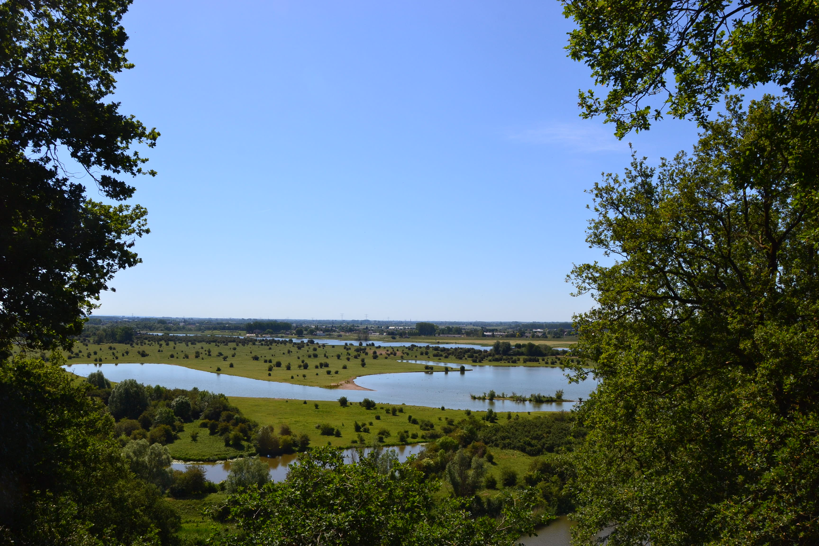 On the Trekvogelpad hiking route: view from the Grebbeberg hill, near Rhenen, the Netherlands, on the Blauwe Kamer natural monument.